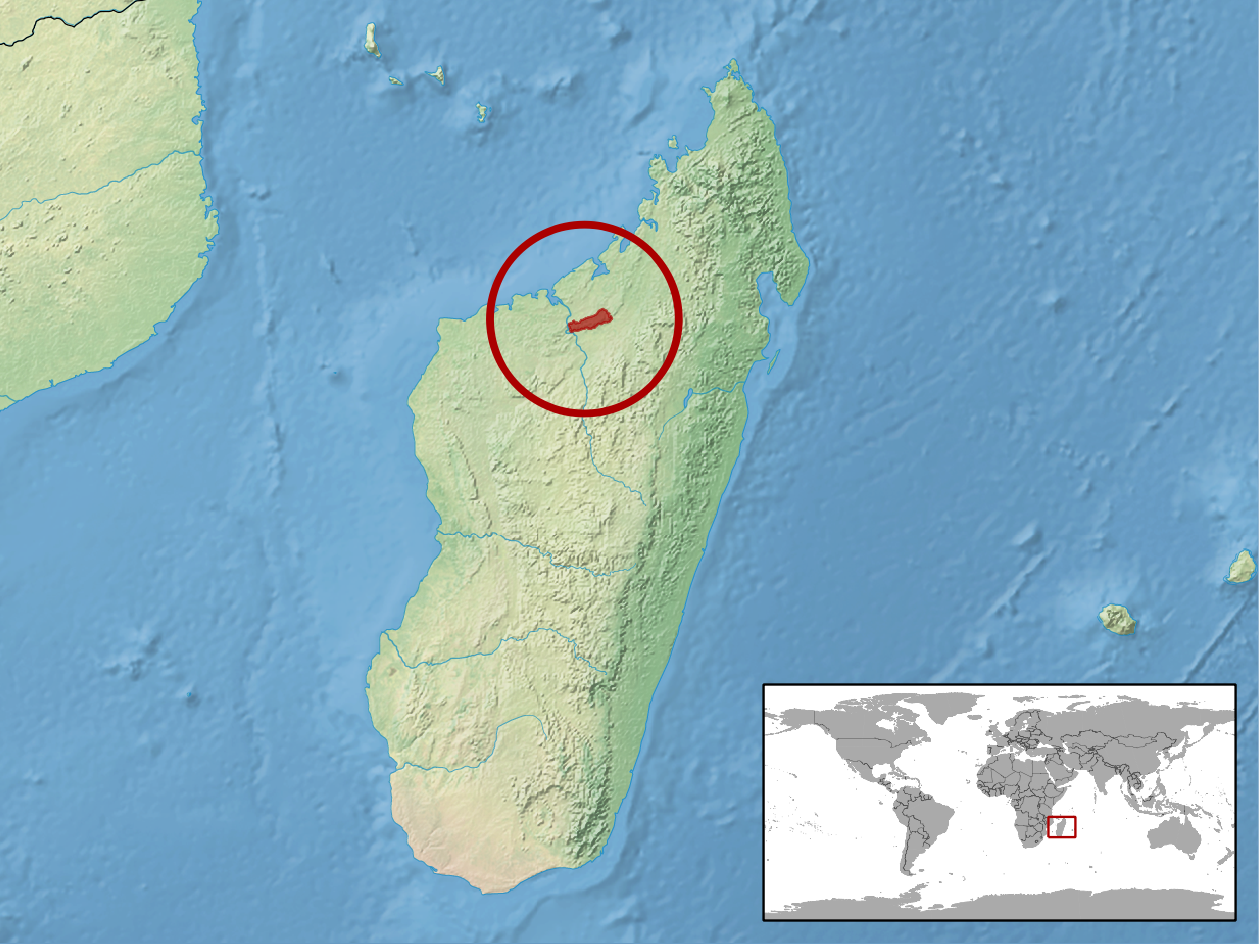 geographic distribution of Brookesia decaryi (Native: Madagascar)